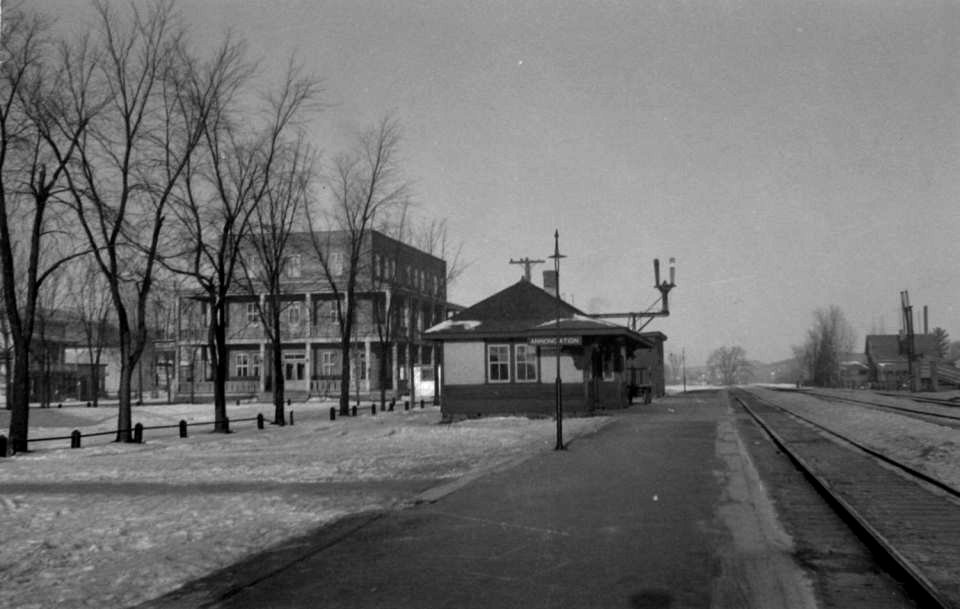 Contrast adjusted by the uploader.